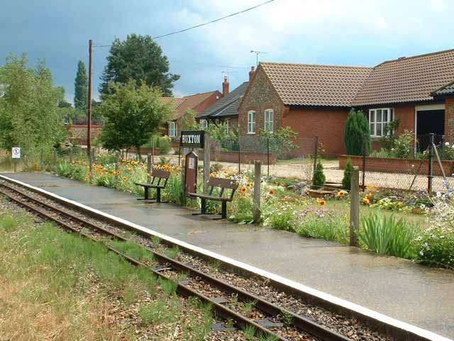 Buxton Station on the Bure Valley Railway The Bure Valley Railway in north Norfolk is a restored railway at 15 inch gauge, opened in 1990.